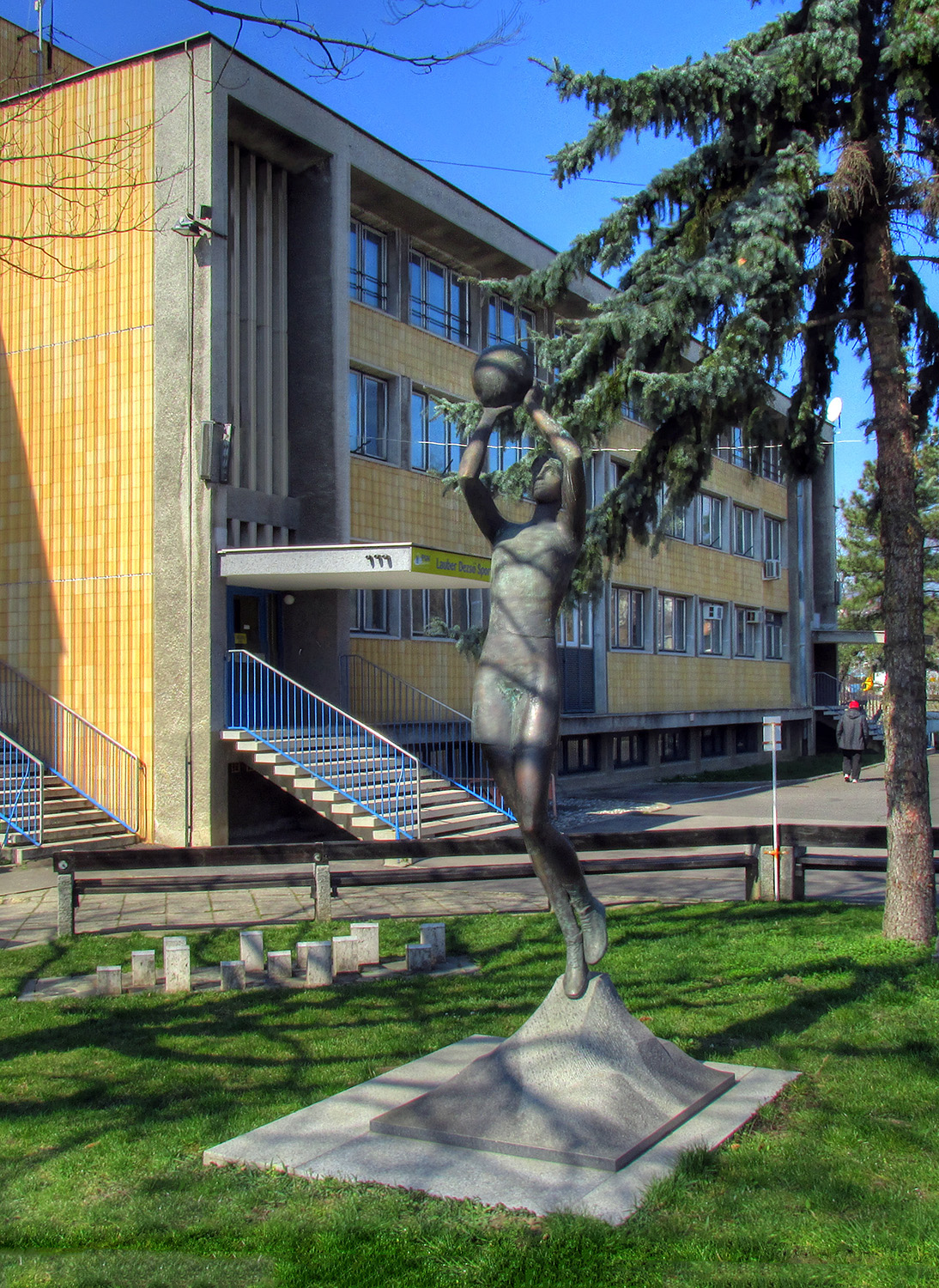 'Basketball Woman' statue at Pécs, in the font of Lauber Dezső Sports Hall, in memoriam of Judit Horváth